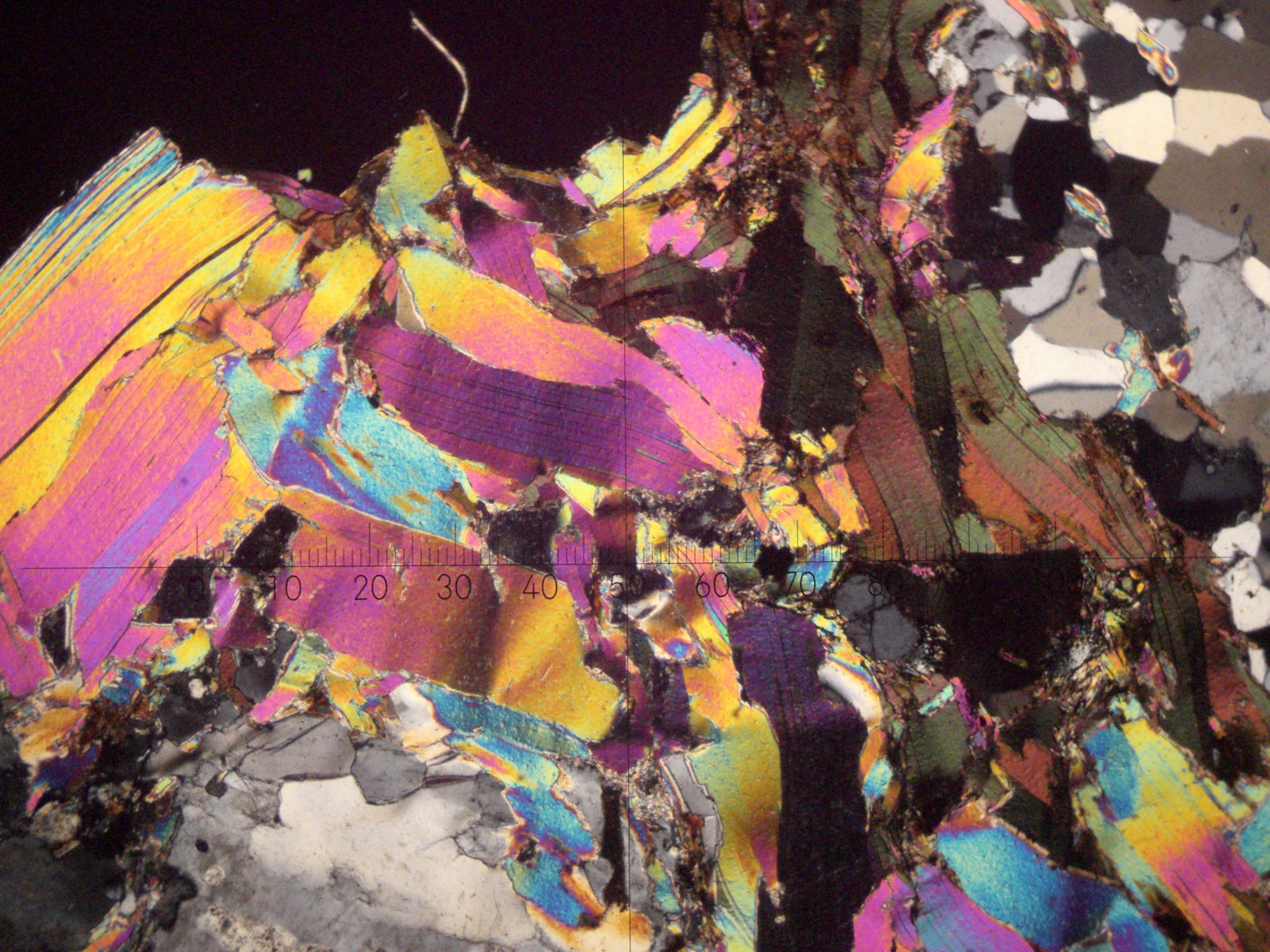 Muscovite in metagranite. In right part are grains of biotite. Photograph with crossed polars.